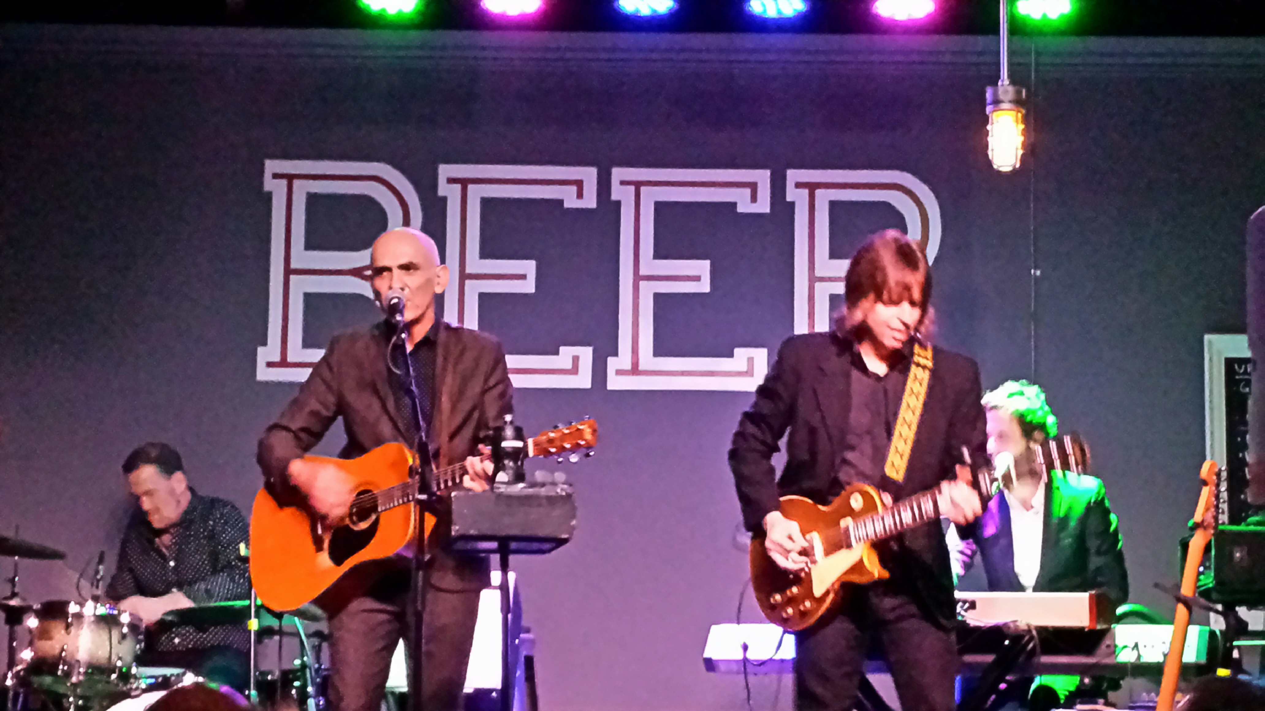 Paul Kelly and his band performing in Raleigh NC on 26 September 2017